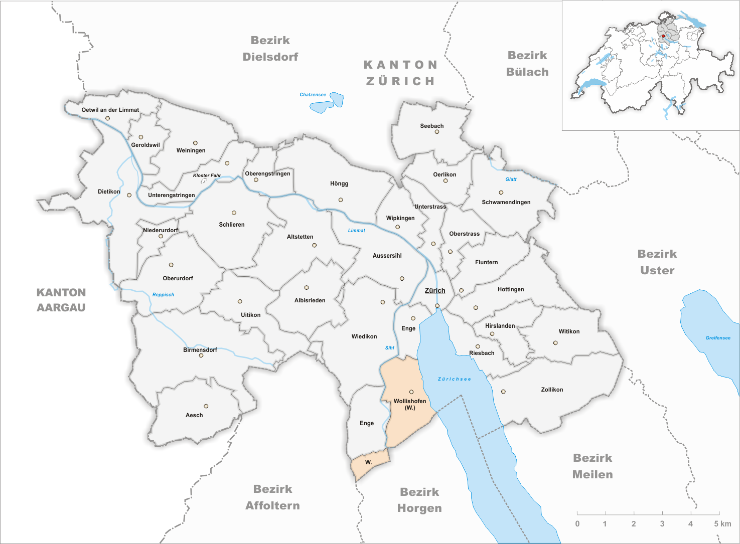 Municipality Wollishofen